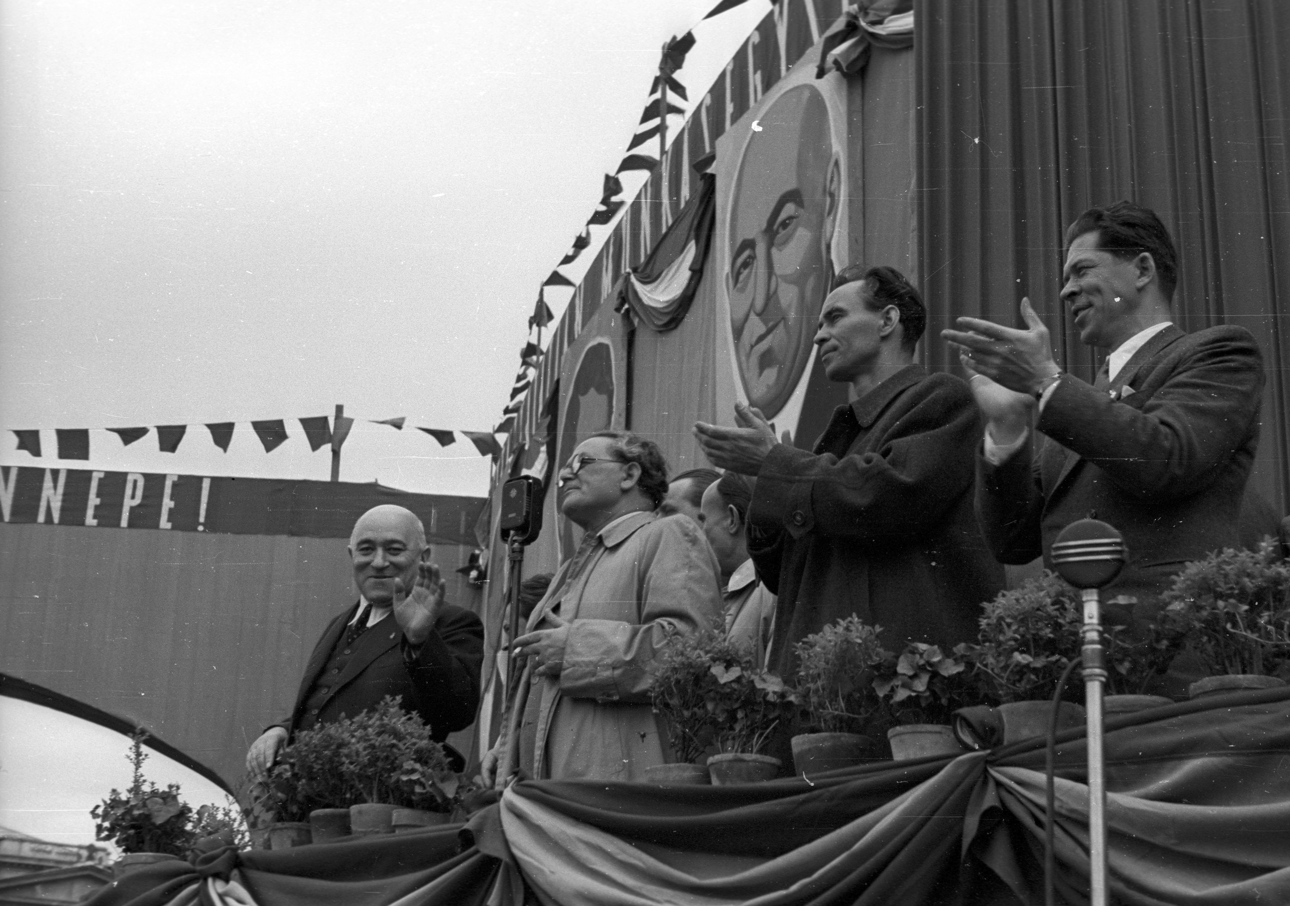 Leaders of Hungary during International Workers' Day in 1947, from left to right: Mátyás Rákosi, Árpád Szakasits, László Rajk and György Marosán